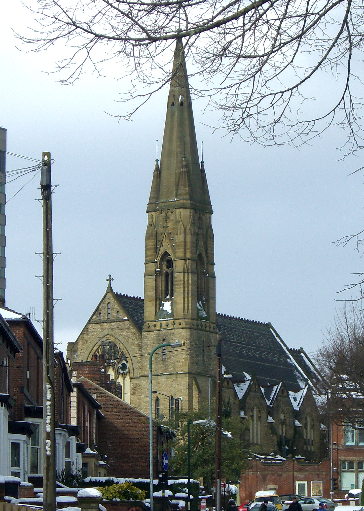 University of Sheffield Drama Studio, Glossop Road, Sheffield, South Yorkshire, seen from the east from Wilkinson Street. Built in 1869–71 as a Baptist church.